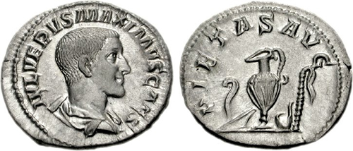 Maximus. Caesar, AD 235/6-238. AR Denarius (3.06 g, 12h). Rome mint. 3rd emission, AD 236. IVLVERVSMAXIMVSCAES Bare-headed and draped bust right / PIETASAVG Lituus, knife, jug, simpulum, and sprinkler. RIC 1; BMCRE 118; RSC 1.